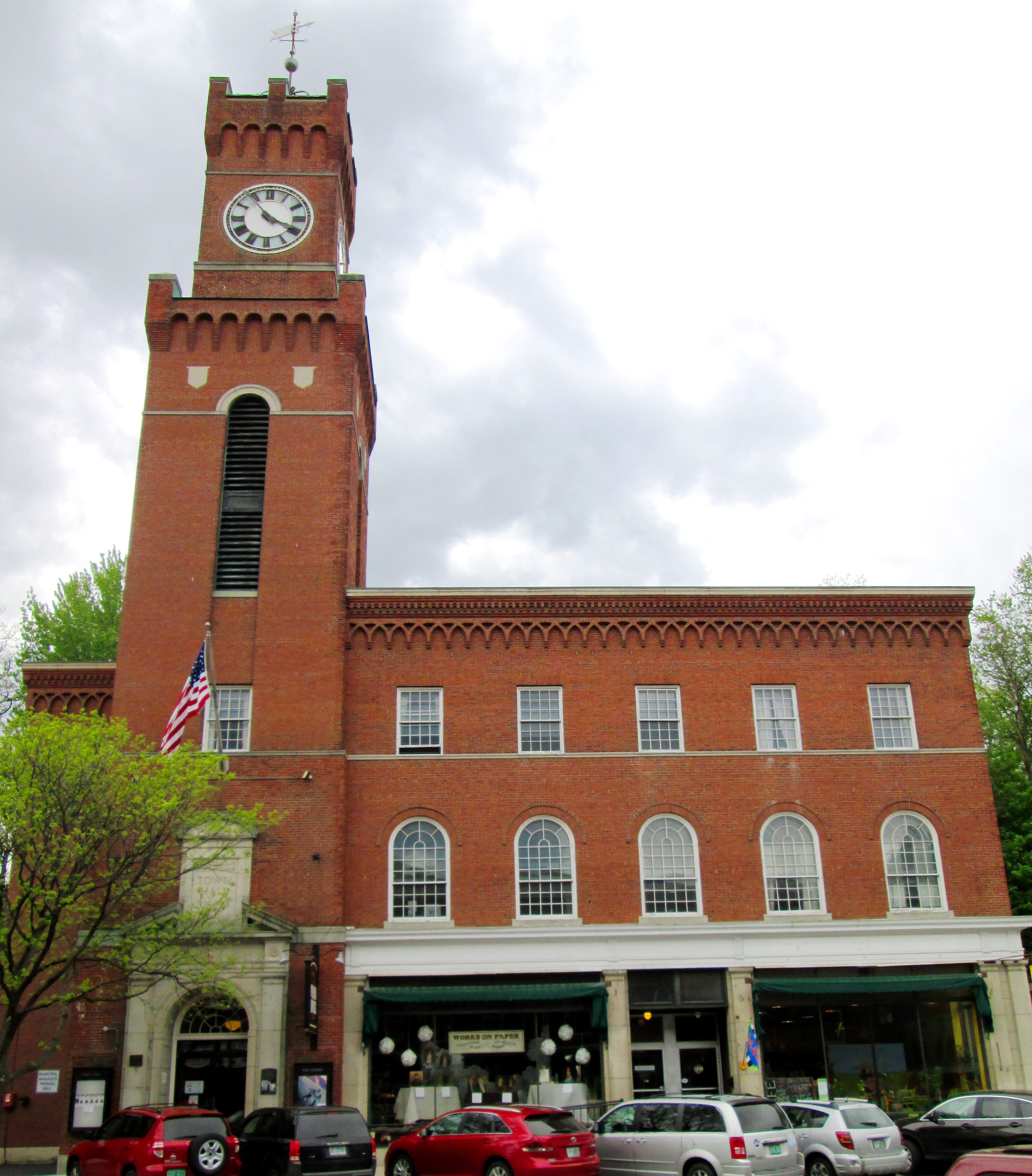 Rockingham Town Hall on The Square in Bellows Falls, Vermont was built in 1926 to replace an earlier town hall on the site built in 1887. The current 1926 building is in the Colonial Revival style overall, with a Georgian Colonial Revival entrance, Neo-Gothic arches, and a Renaissance revival tower. The doors are made of bronze. There is a theater on the first floor, the Bellows Falls Opera House. The Town Hall is part of the Bellows Falls Downtown Historic District. (Source: "5. Rockingham Town Hall")